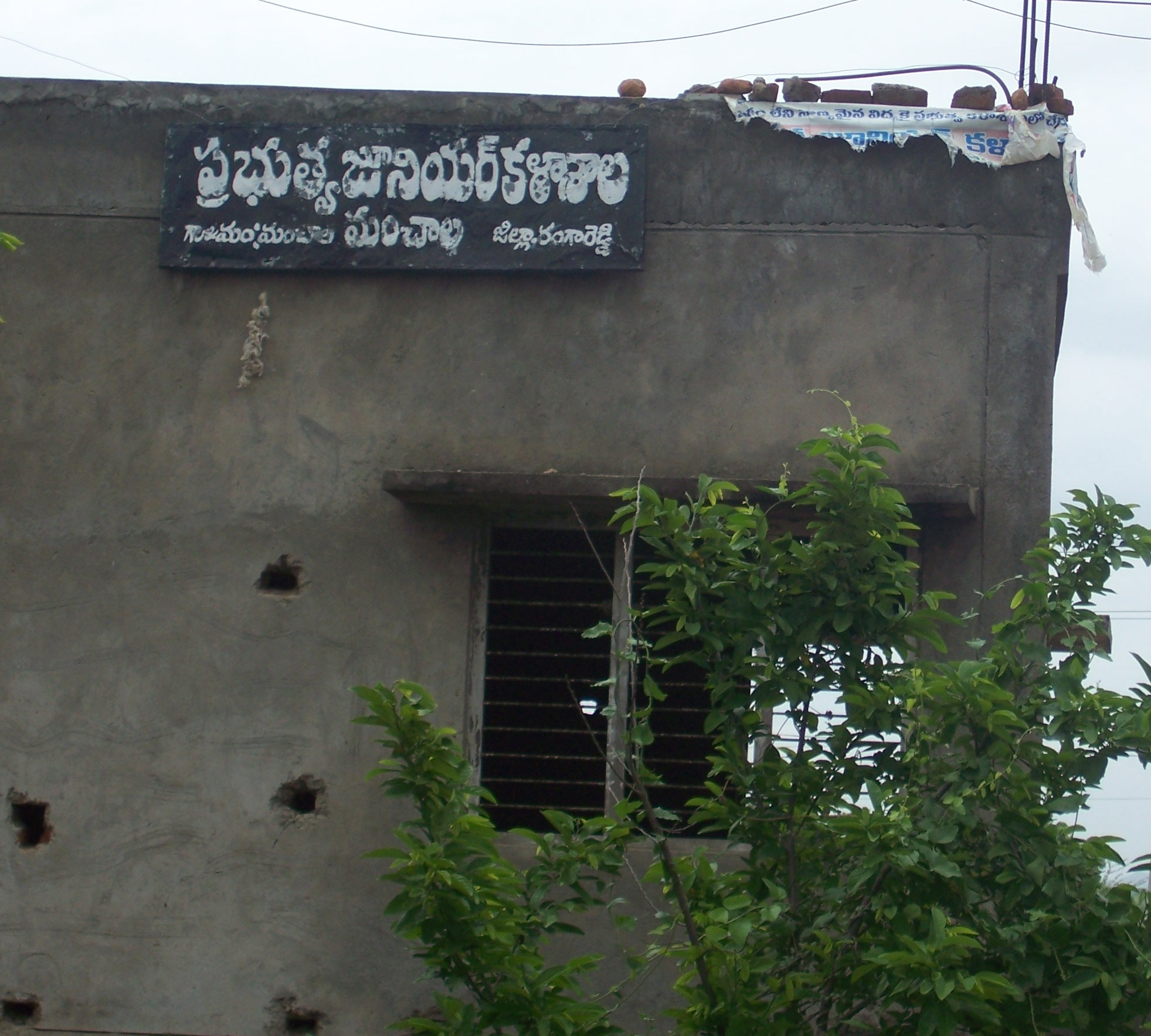 Govt. jr.college, in Manchal village